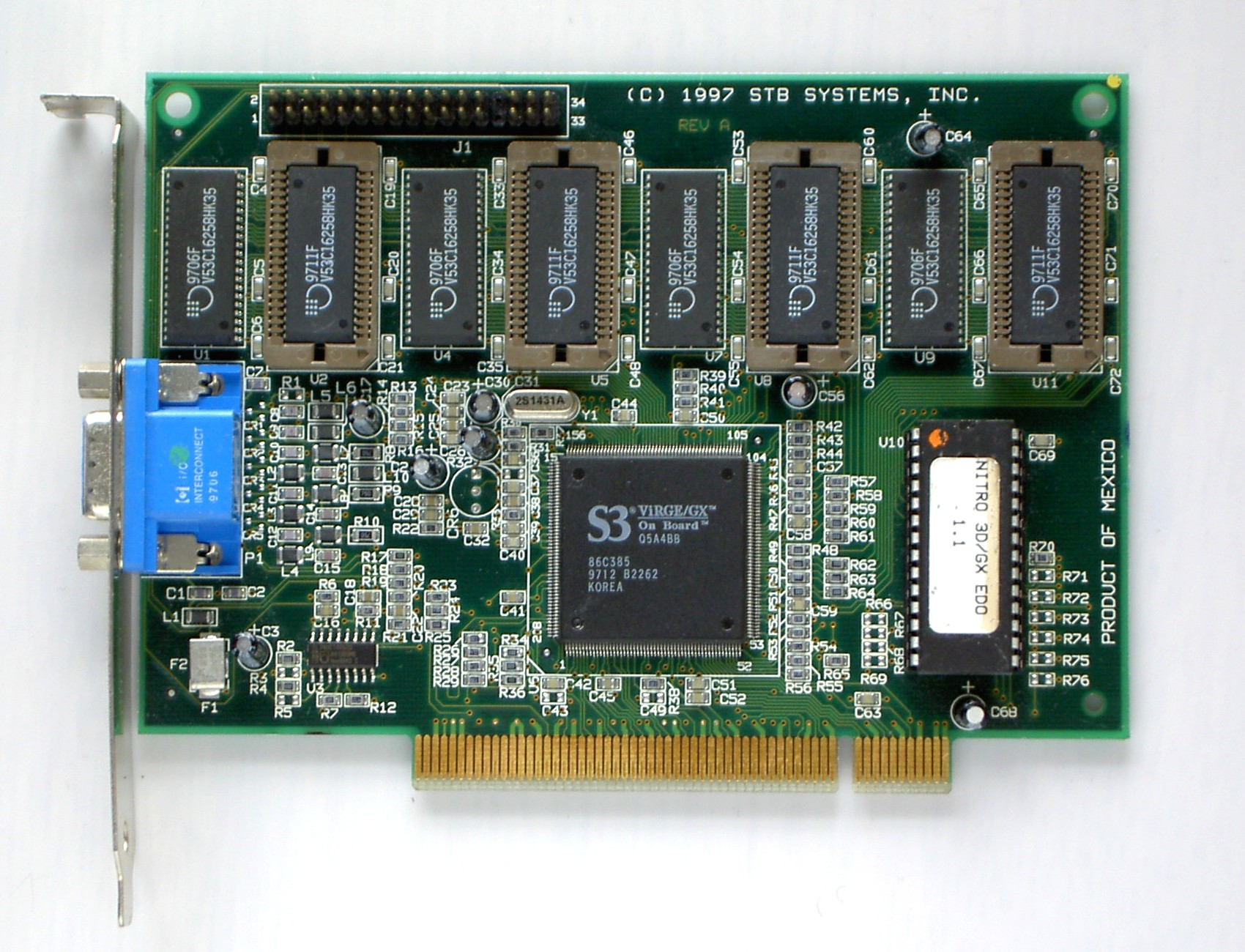 S3 ViRGE/GX PCI Card (STB Nitor3D/GX)